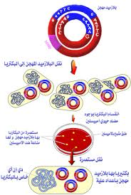 الانشطار الثنائي